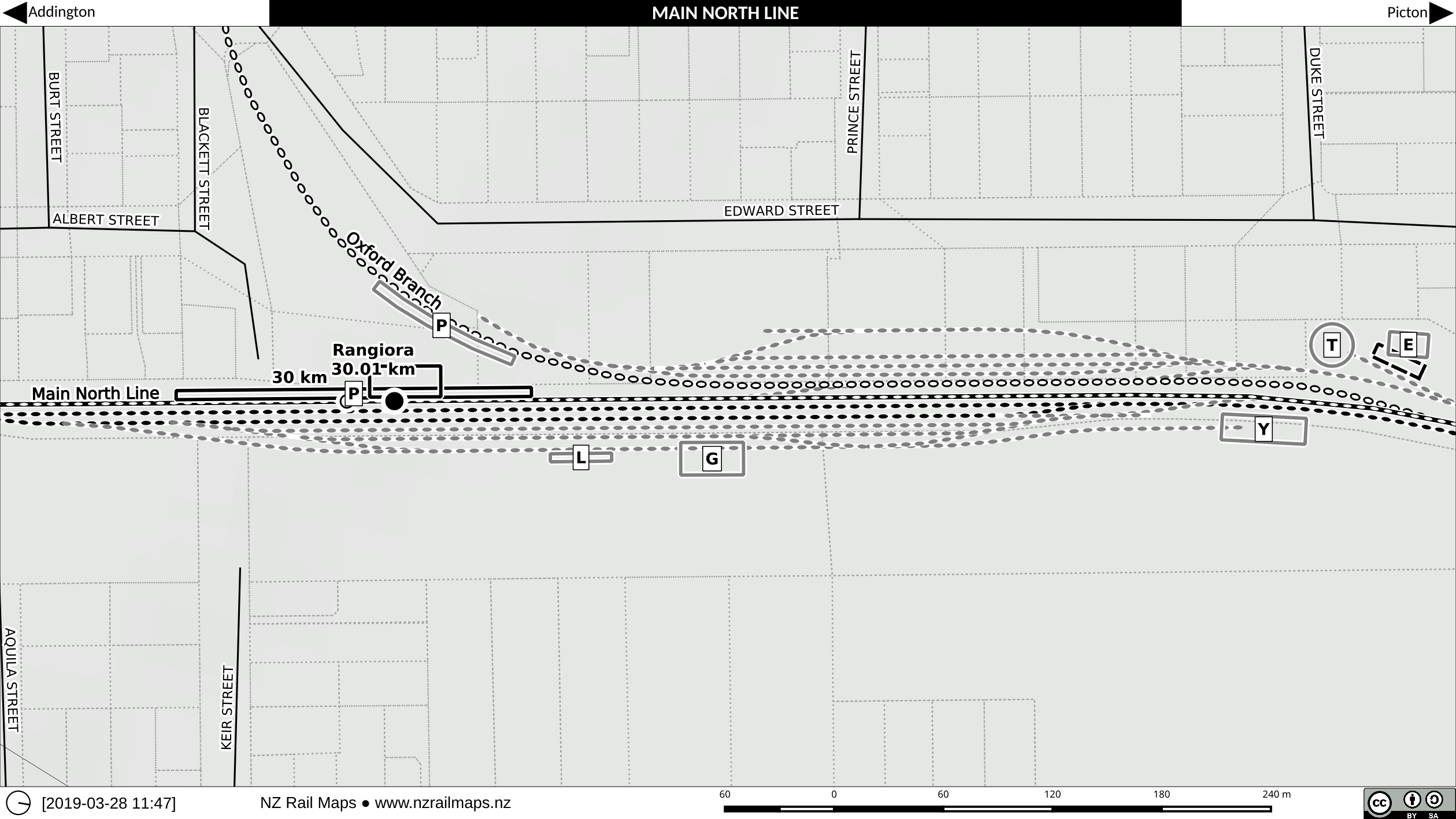 Map of Rangiora Station